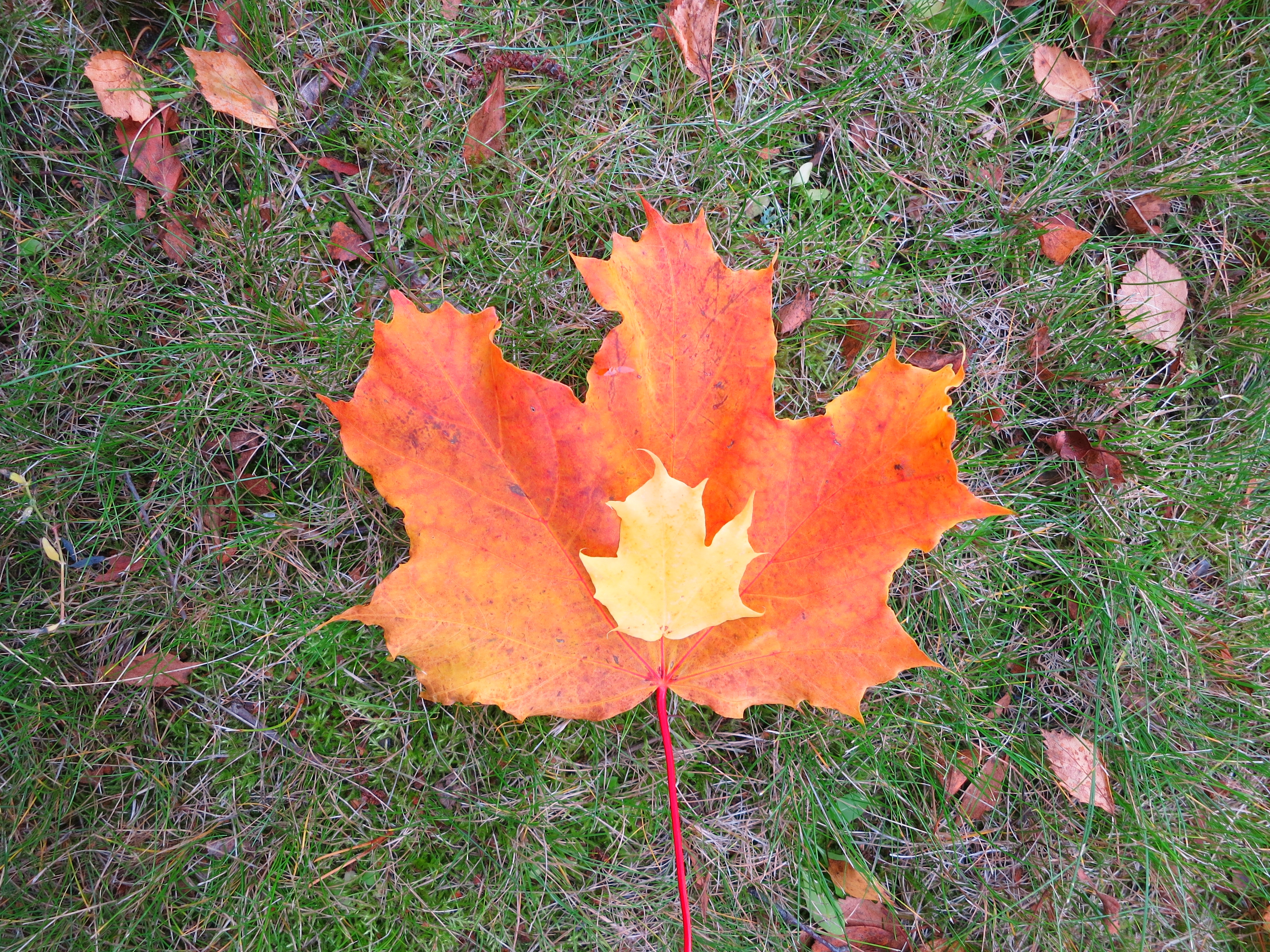 Leaves of Norway maple (Acer platanoides) in autumn (Hyvinkää, Finland)